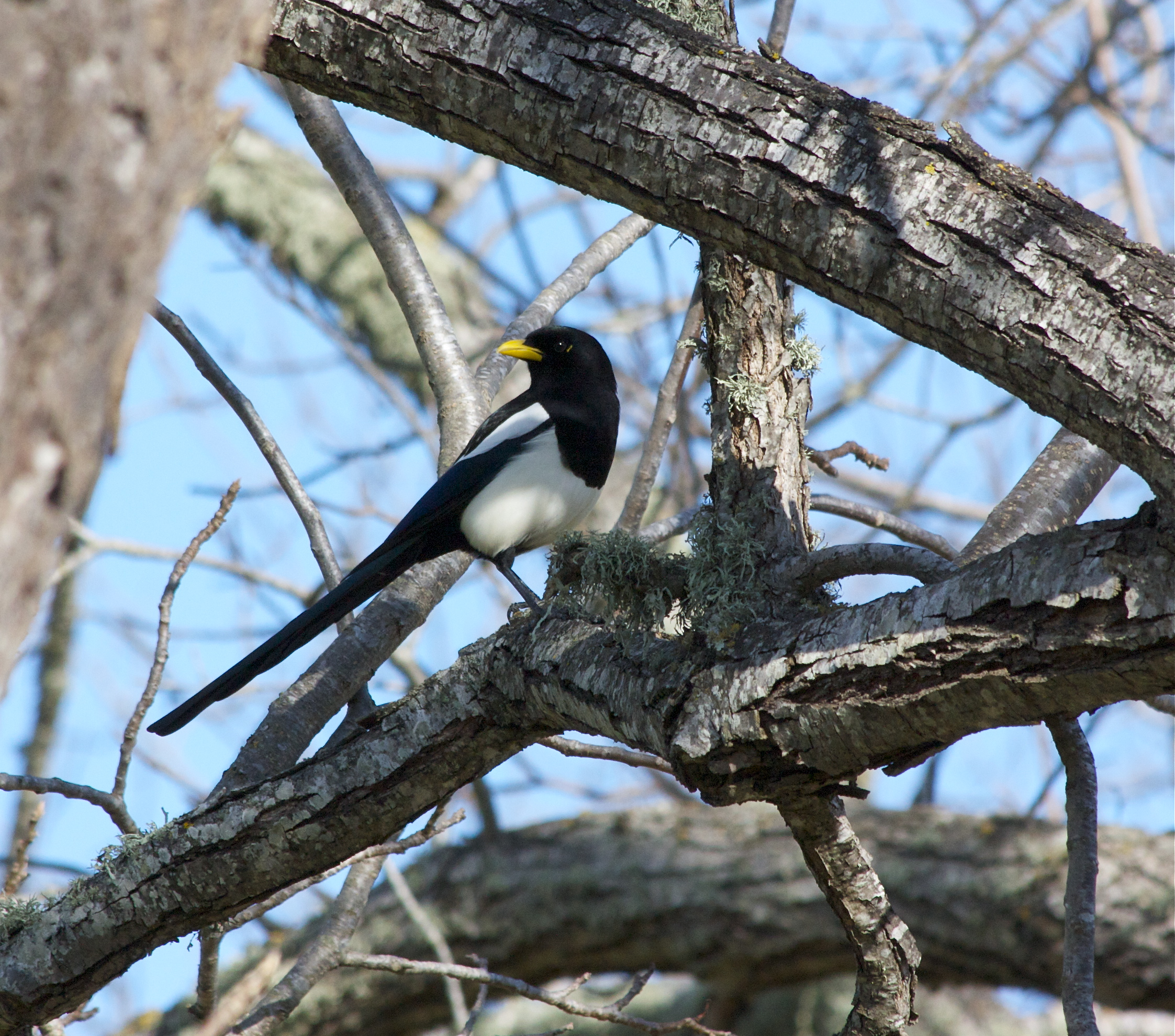 A Yellow-billed Magpie in California, USA.